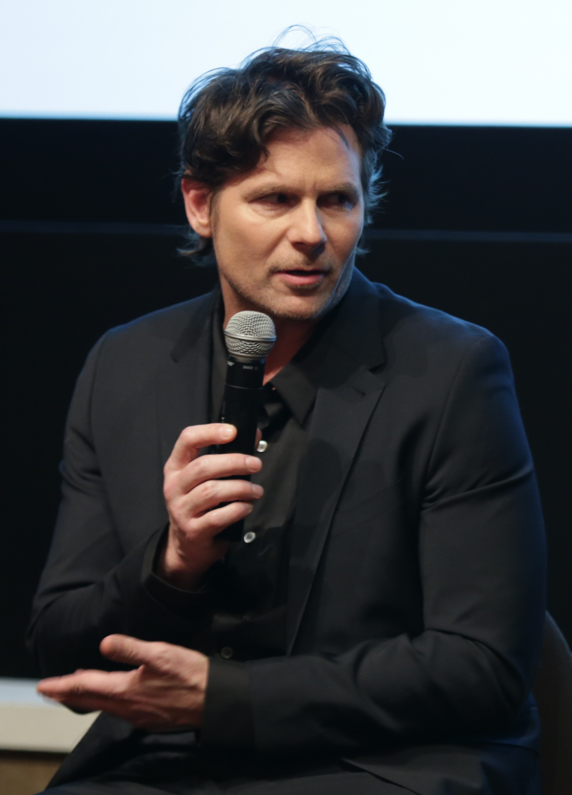 Steve Conrad, Creator and Executive Producer, Patriot; Frances Fragos Townsend, Executive Vice President, Worldwide Government, Legal and Business Affairs, MacAndrews & Forbes, Inc., Senior National Security Analyst, CBS News, Former Assistant to the President for Homeland Security and Counterterrorism (2003-2008)